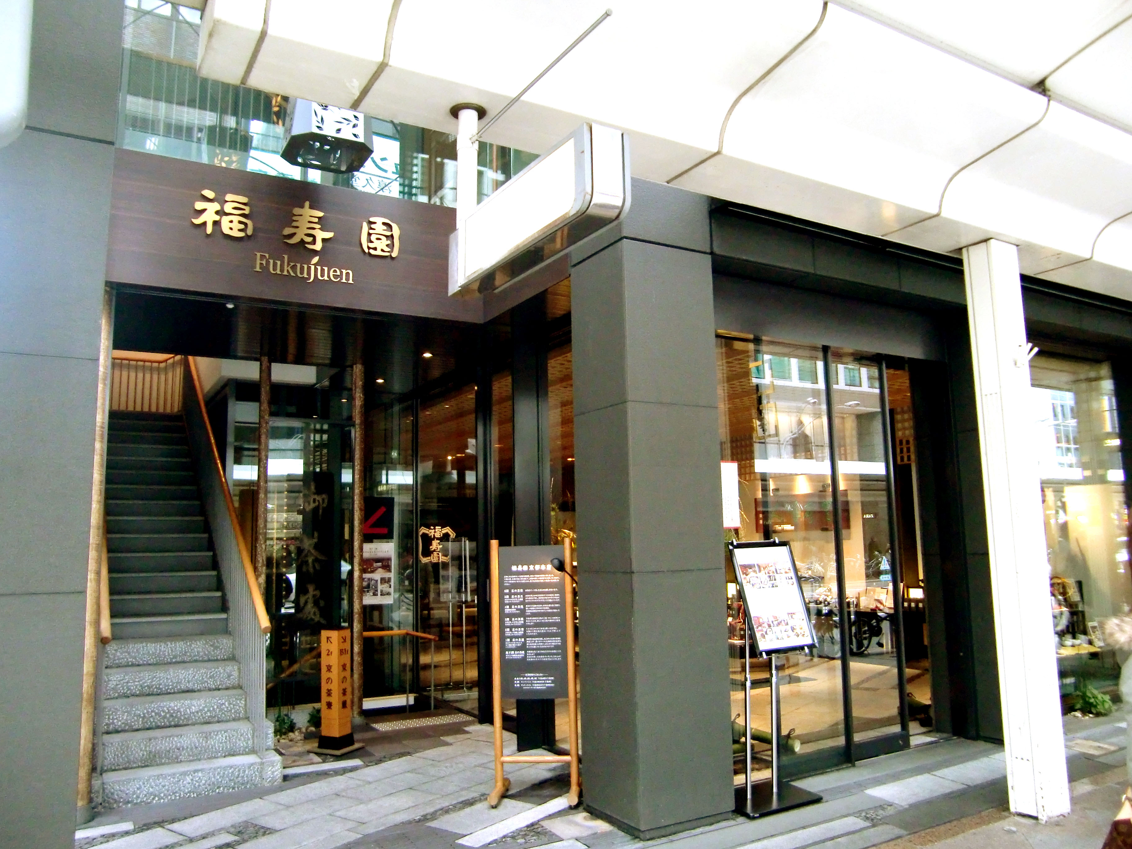 Fukujuen Kyoto Head Office,Shijo-dori Shimogyo-ku Kyoto-City Kyoto Japan.